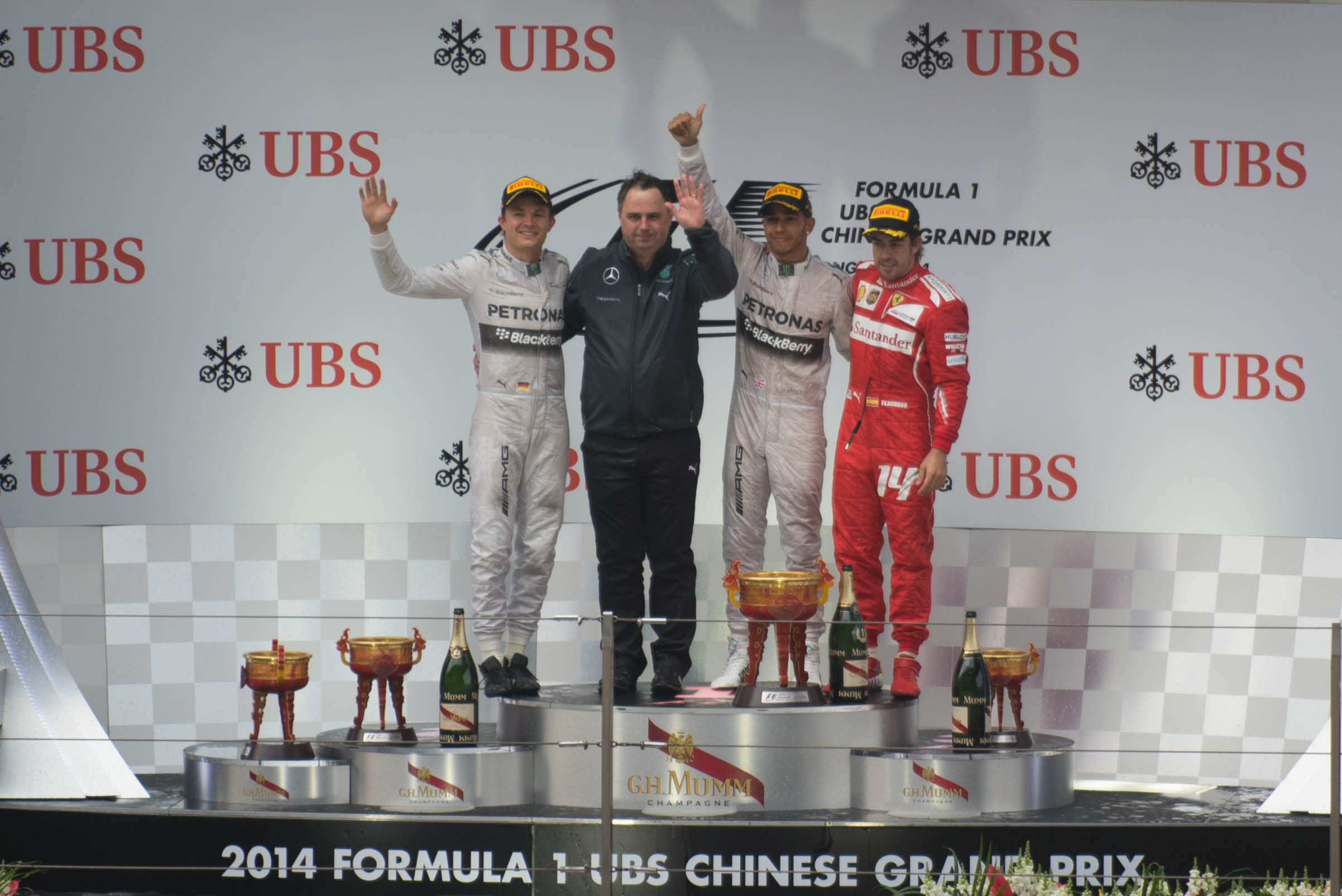 The post-race podium ceremony of the 2014 Chinese Grand Prix featuring the race's top three finishers and a non-driver representative of the winning constructor